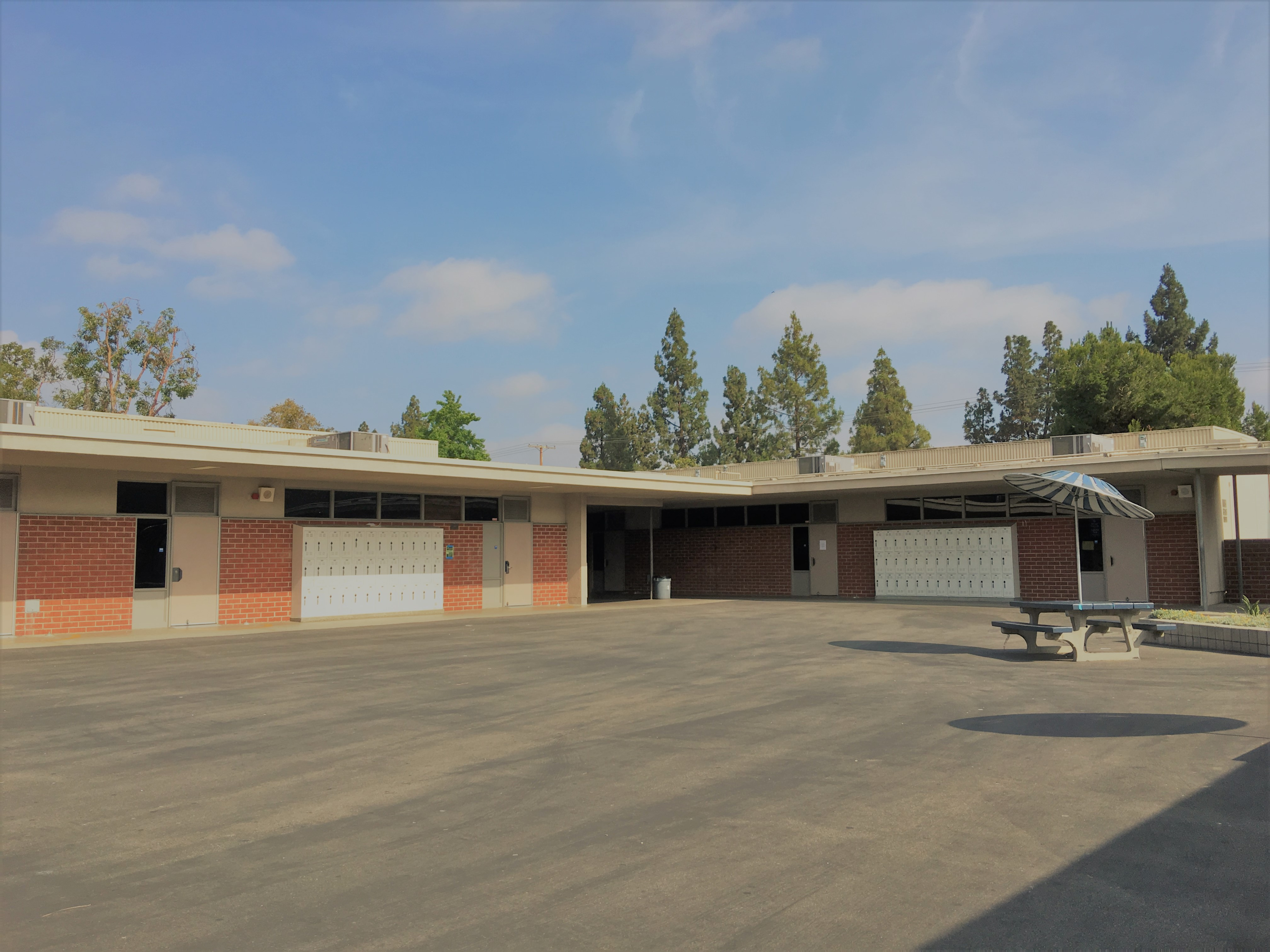 Gahr first quad